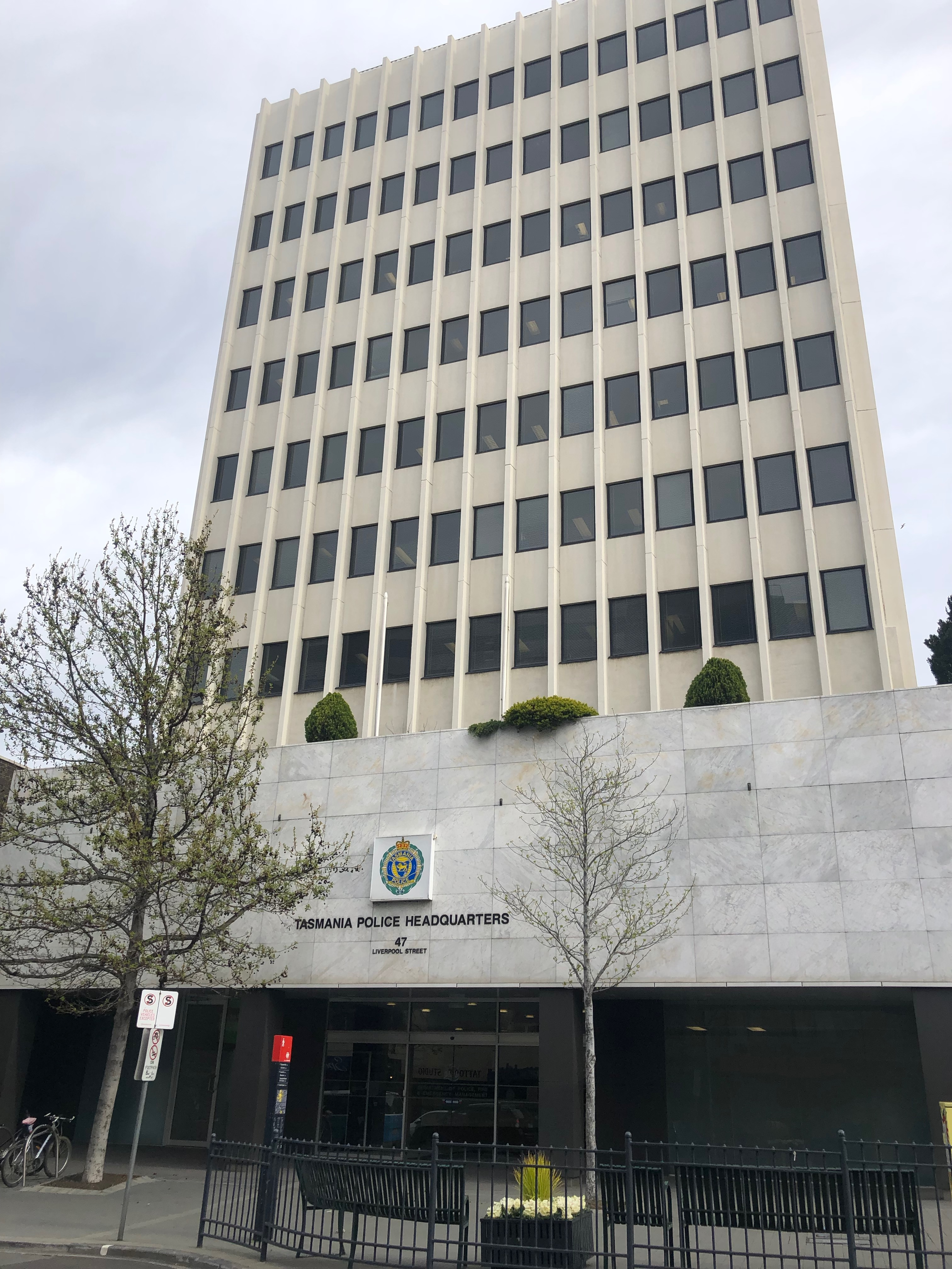 Tasmania Police Headquarters building at 47 Liverpool Street, Hobart.